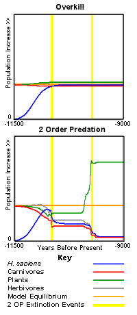 Pleistocene Extinction Model (PEM) graph of Overkill simulation and Second Order Predation simulation results Single hypothesis